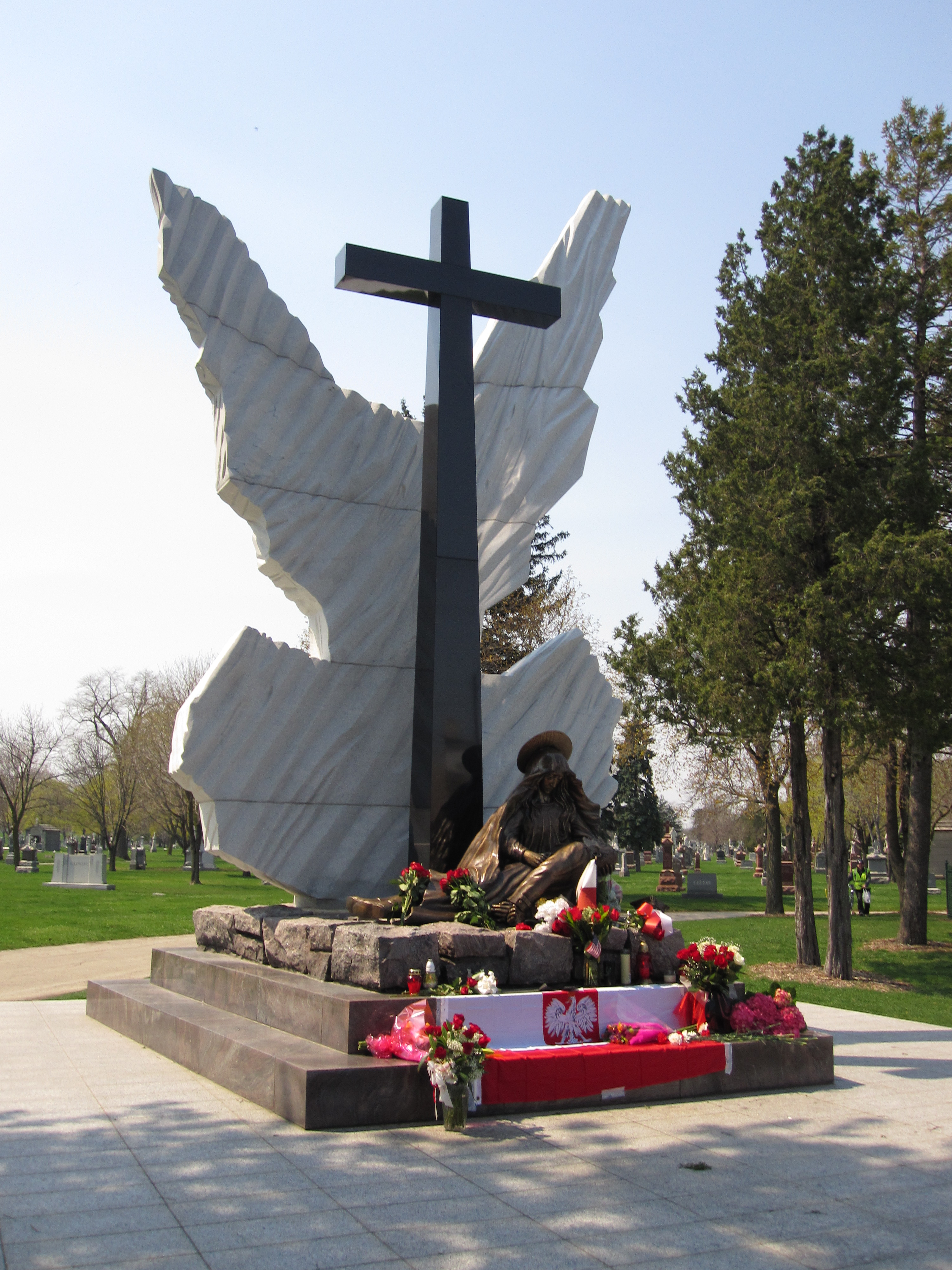 The Katyn Monument in St. Adalbert Catholic Cemetery, Niles, IL, commemorating Katyn massacre. Monument was designed by sculptor Wojciech Seweryn, who perished with President of Poland Lech Kaczynski in the catastrophe near city of Smolensk, Russia.